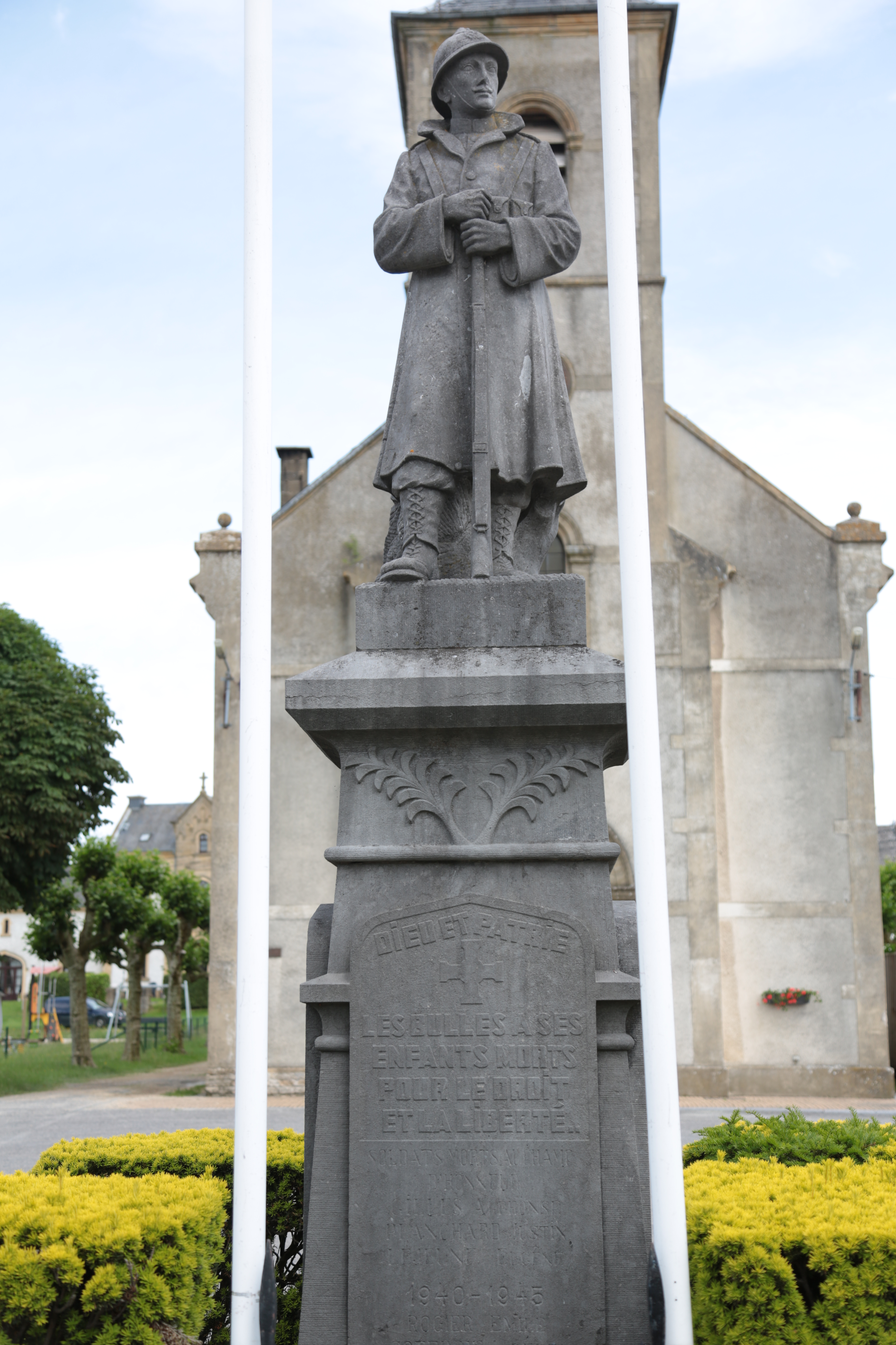 War memorial in Les Bulles